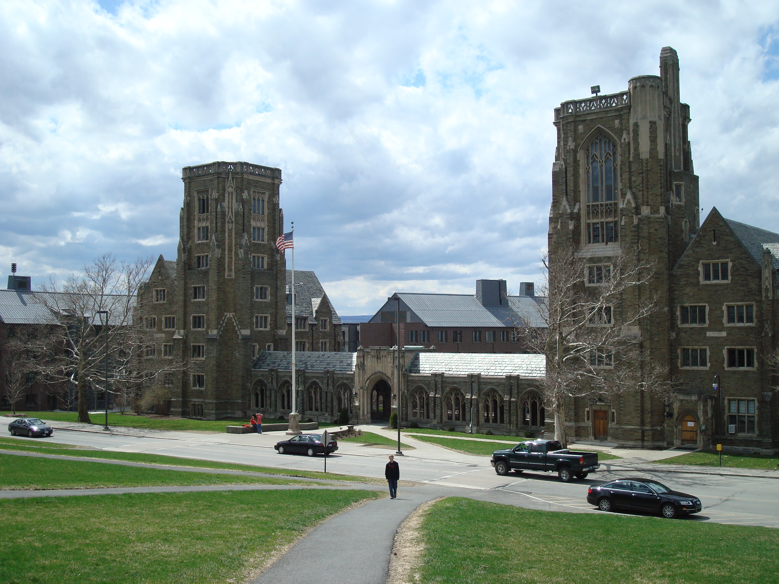 The War Memorial on Cornell University's West Campus. Lyon Hall is to the north (right side of the image) and McFaddin Hall is to the south (left side).